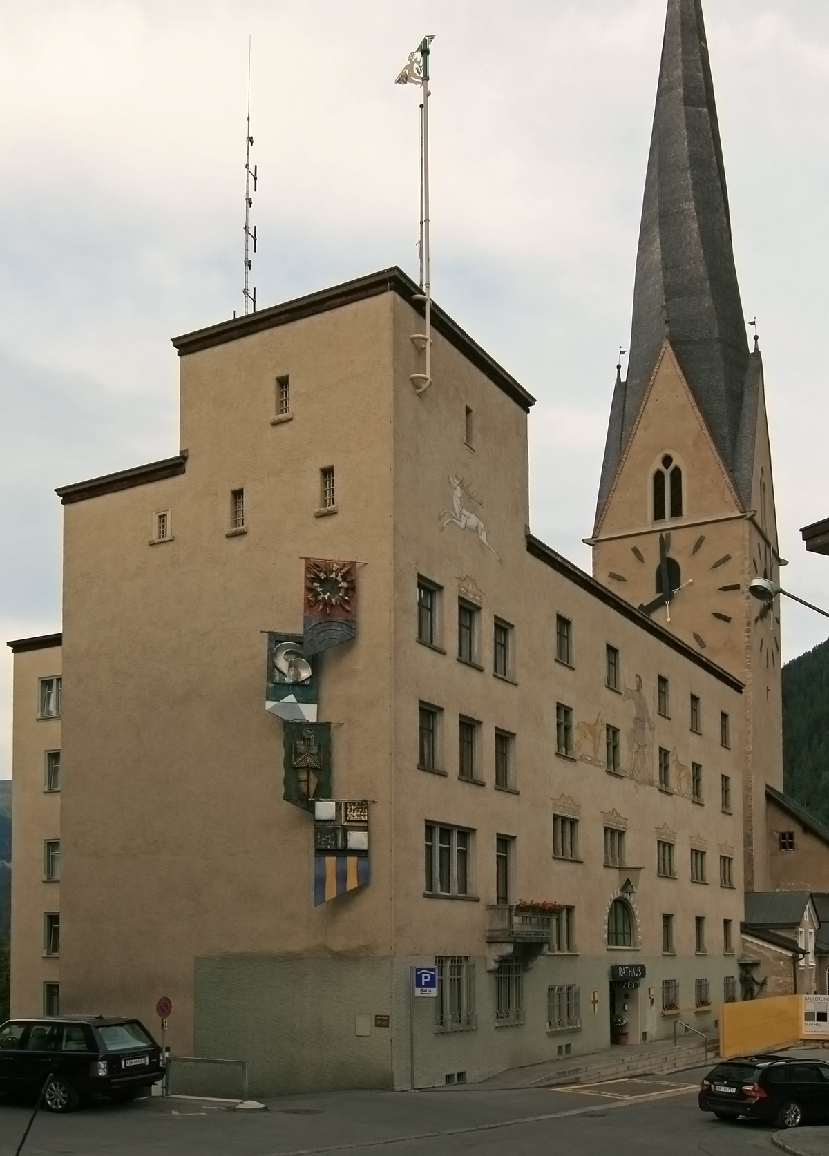 Davos town hall.